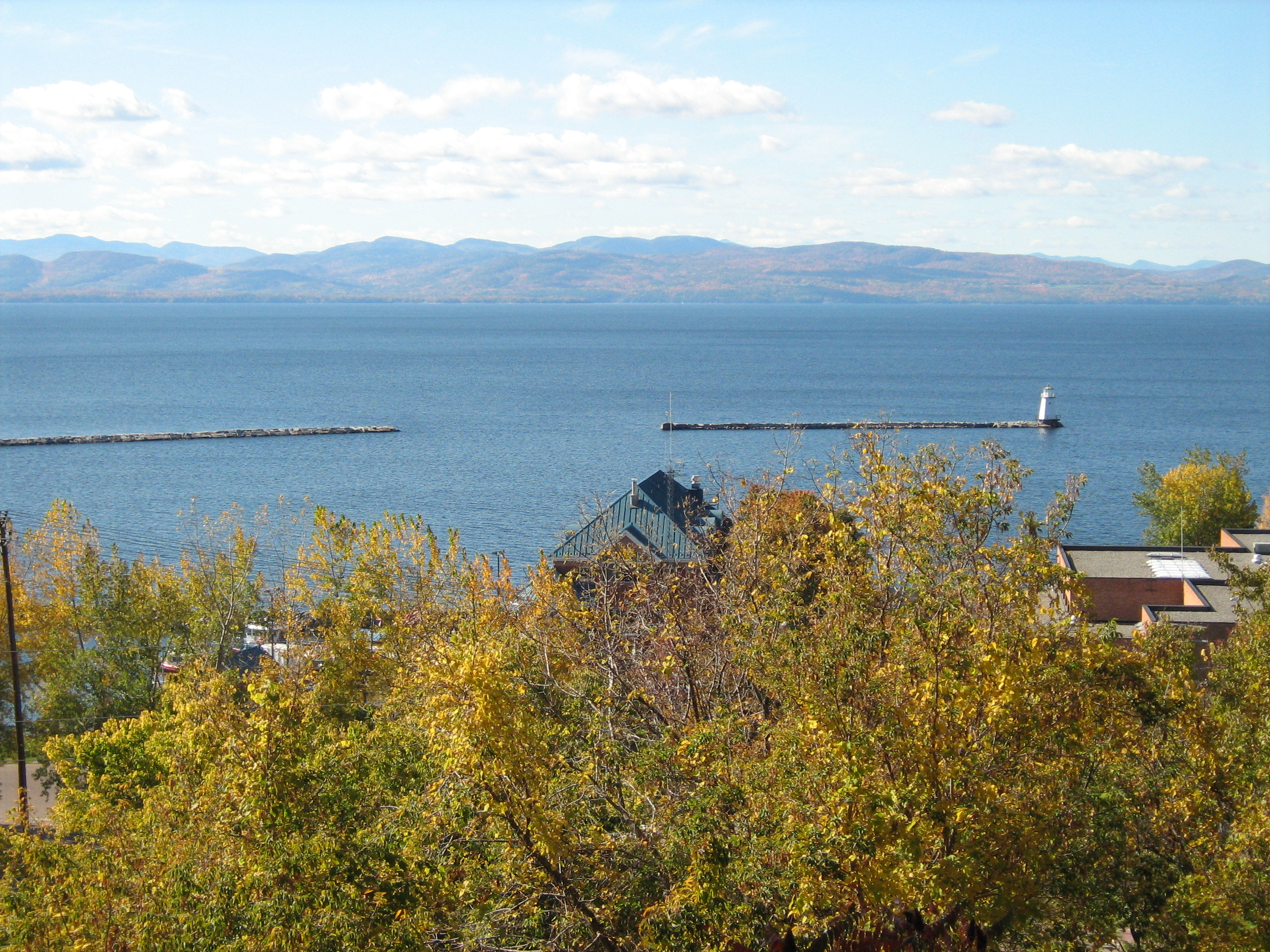 The breakwater was built to protect the harbor from Lake Champlain. The shipping which made Burlington a rich little town is long gone, but the breakwater still serves its purpose, keeping the harbor calm. Burlington Breakwater North Light is visible to the right.